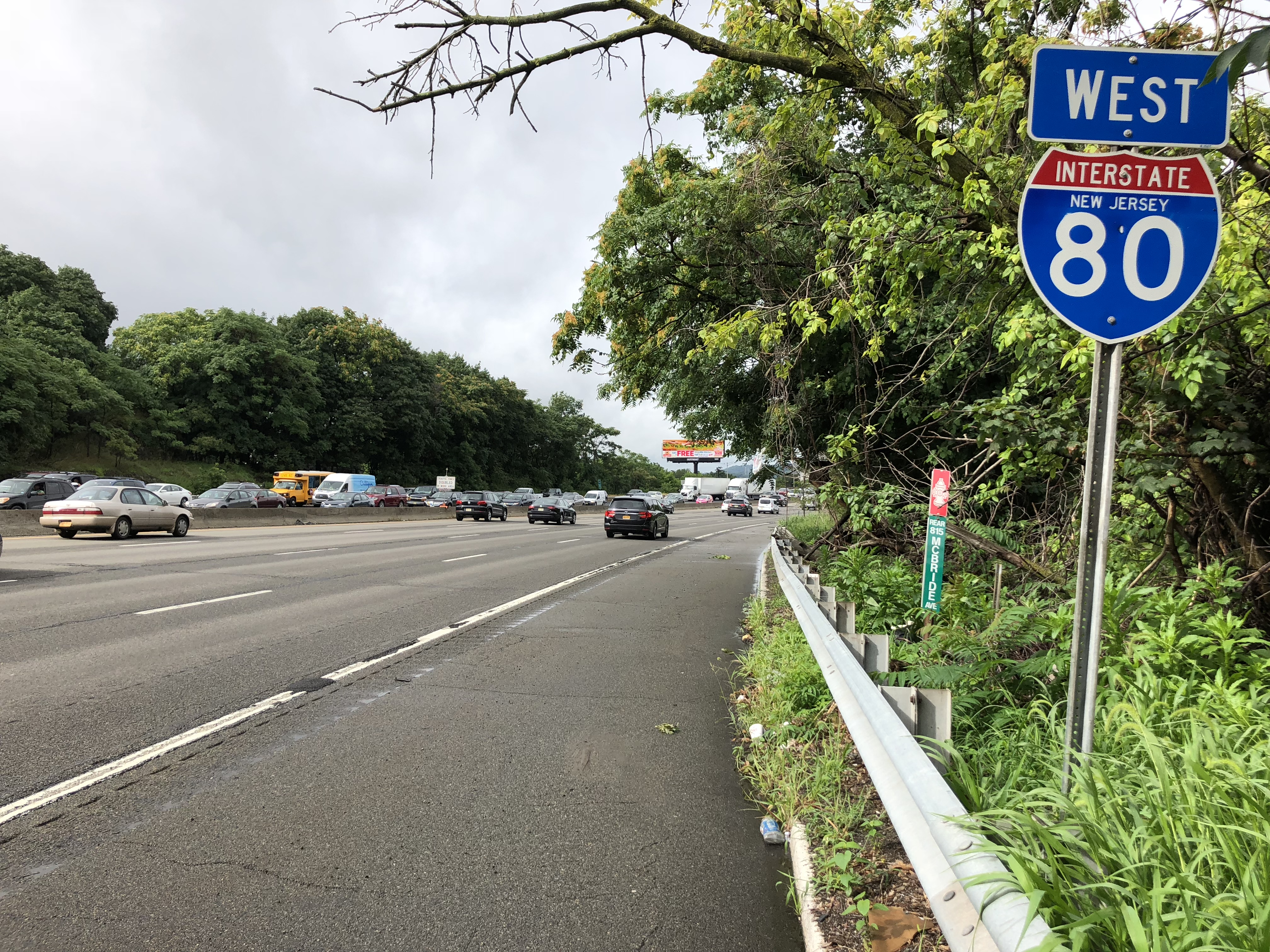 View west along Interstate 80 (Bergen-Passaic Expressway) between Exit 56 and Exit 55 in Woodland Park, Passaic County, New Jersey